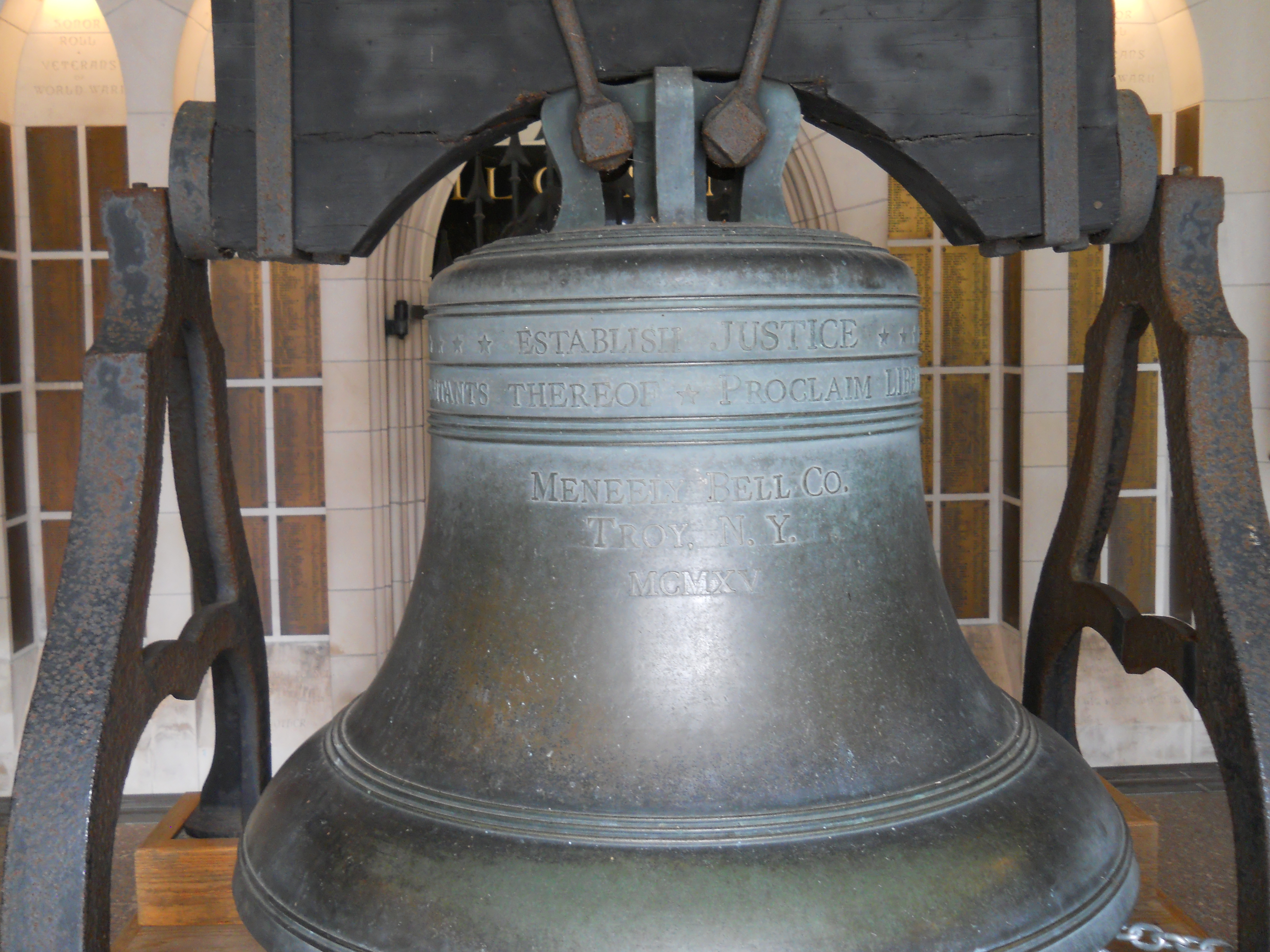 The Freedom Bell which resides in the Washington Memorial Chapel at Valley Forge.